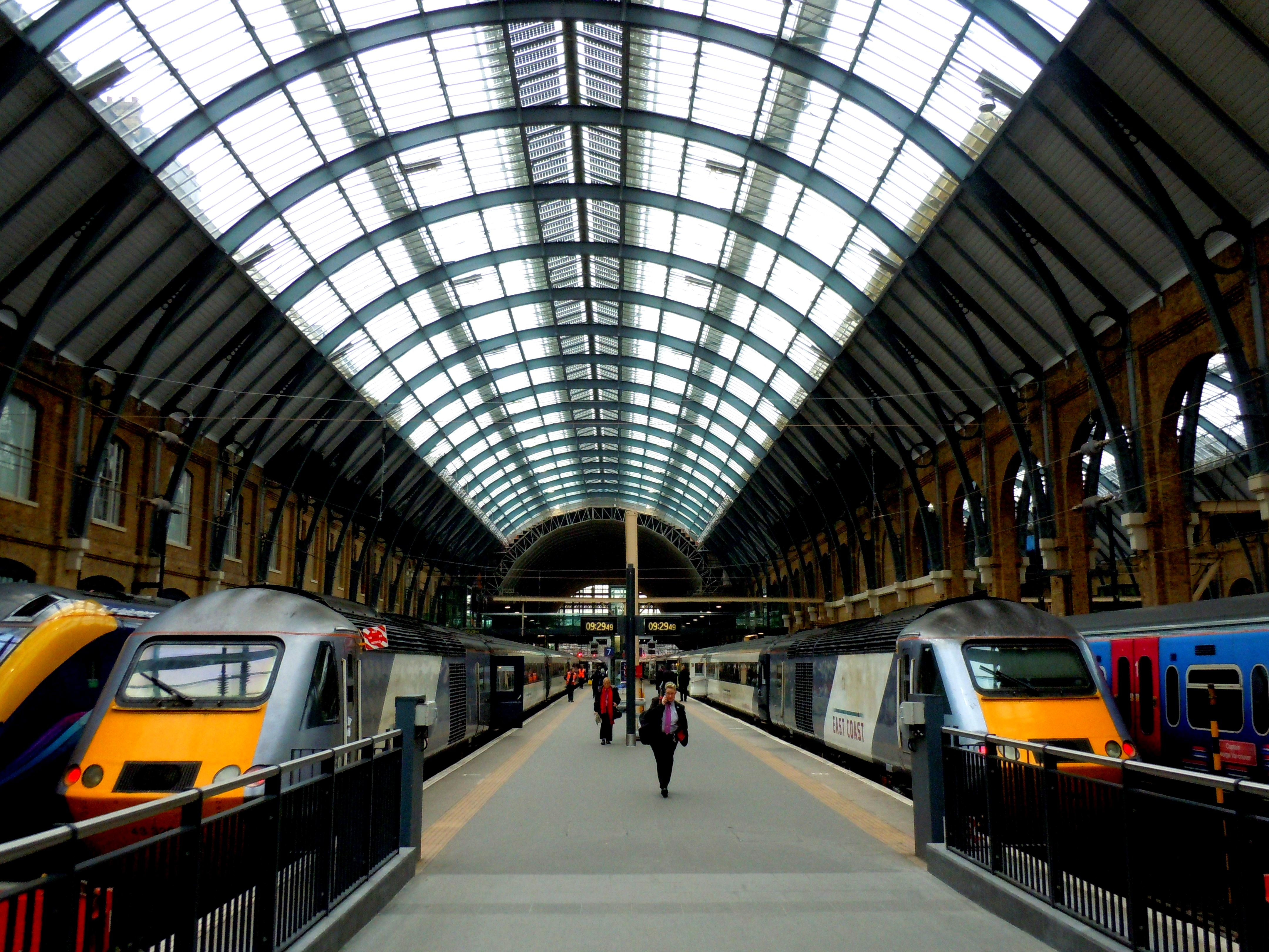 Kings Cross Train Station, London, England (March 2012). Photo by Peter Rimar.